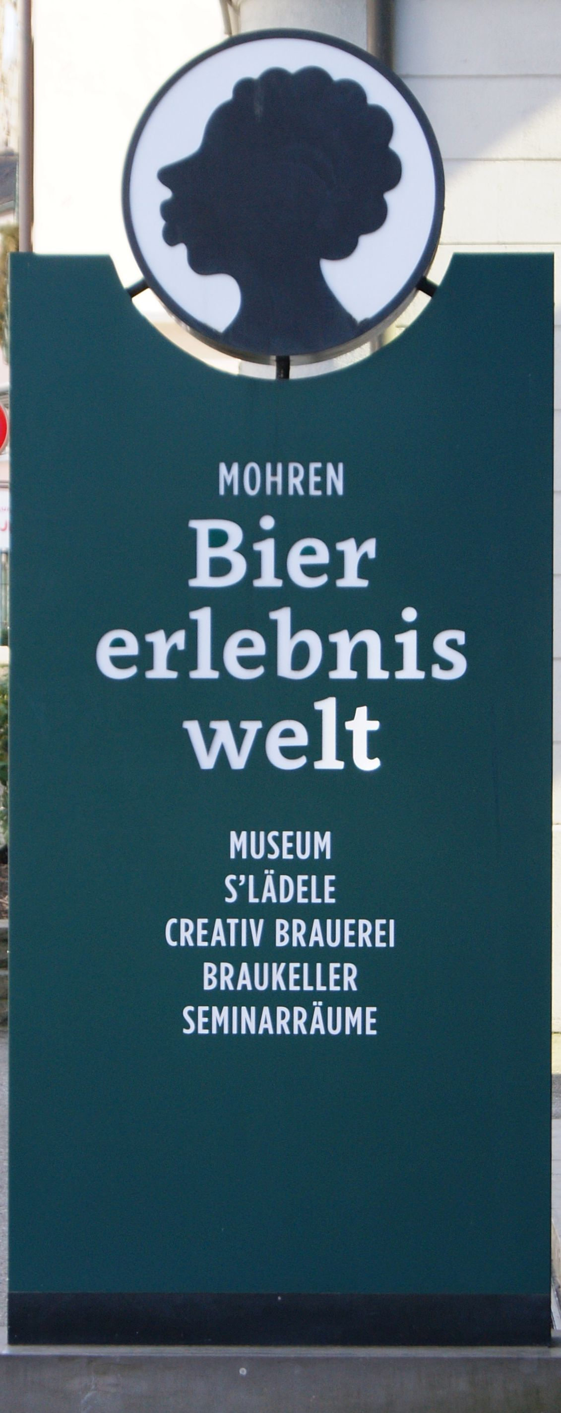 Advertising sign in front of the museum "Mohren Biererlebniswelt" (Mohren beer expierienceworld) in Dornbirn, Vorarlberg, Austria.